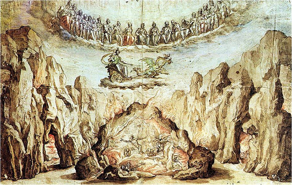 La pellegrina 1589 - Intermedio 4 - La regione de’ demoni 2